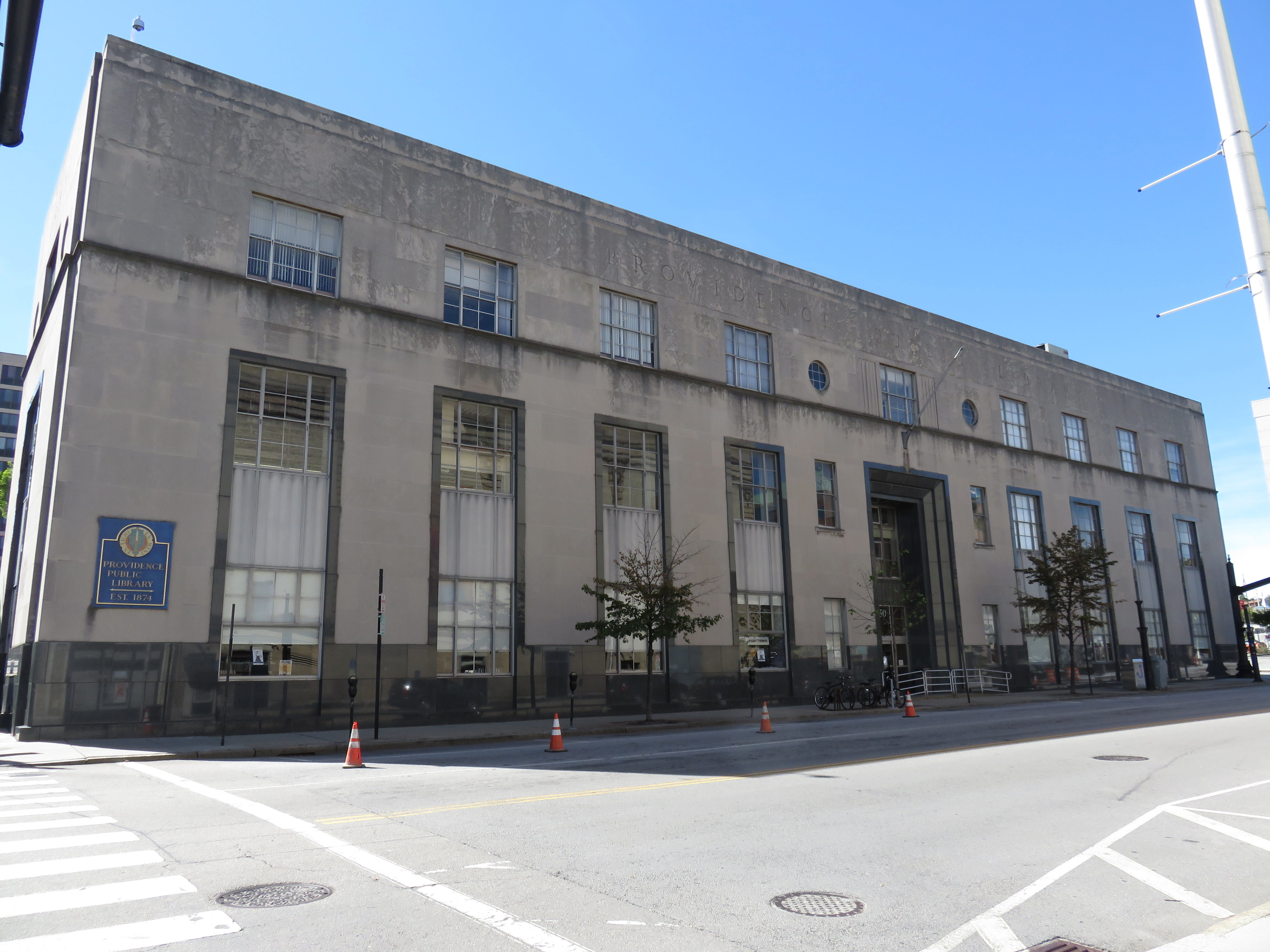 Northeast face of the Providence Public Library in Providence, Rhode Island in 2015